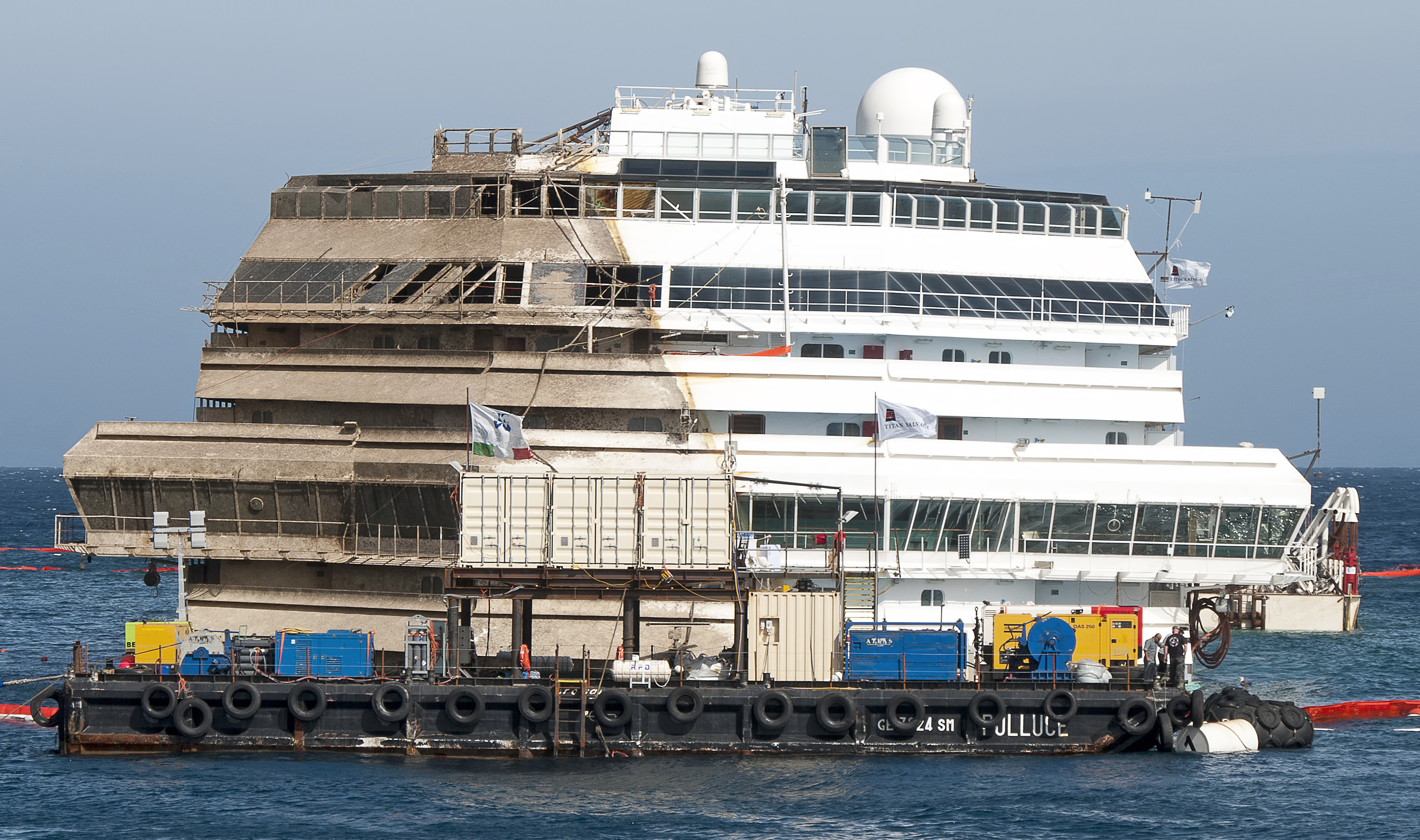 A picture of Costa Concordia taken from ferry in front of it